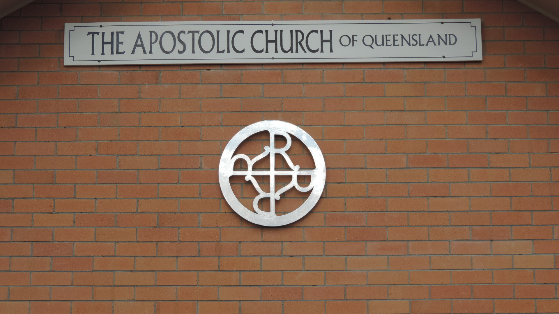 Logo of the Apostolic Church of Queensland, on the front of the Apostolic church, Norwell, Queensland, 2014